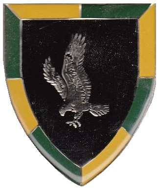 SADF 118 SA Battalion shoulder flash